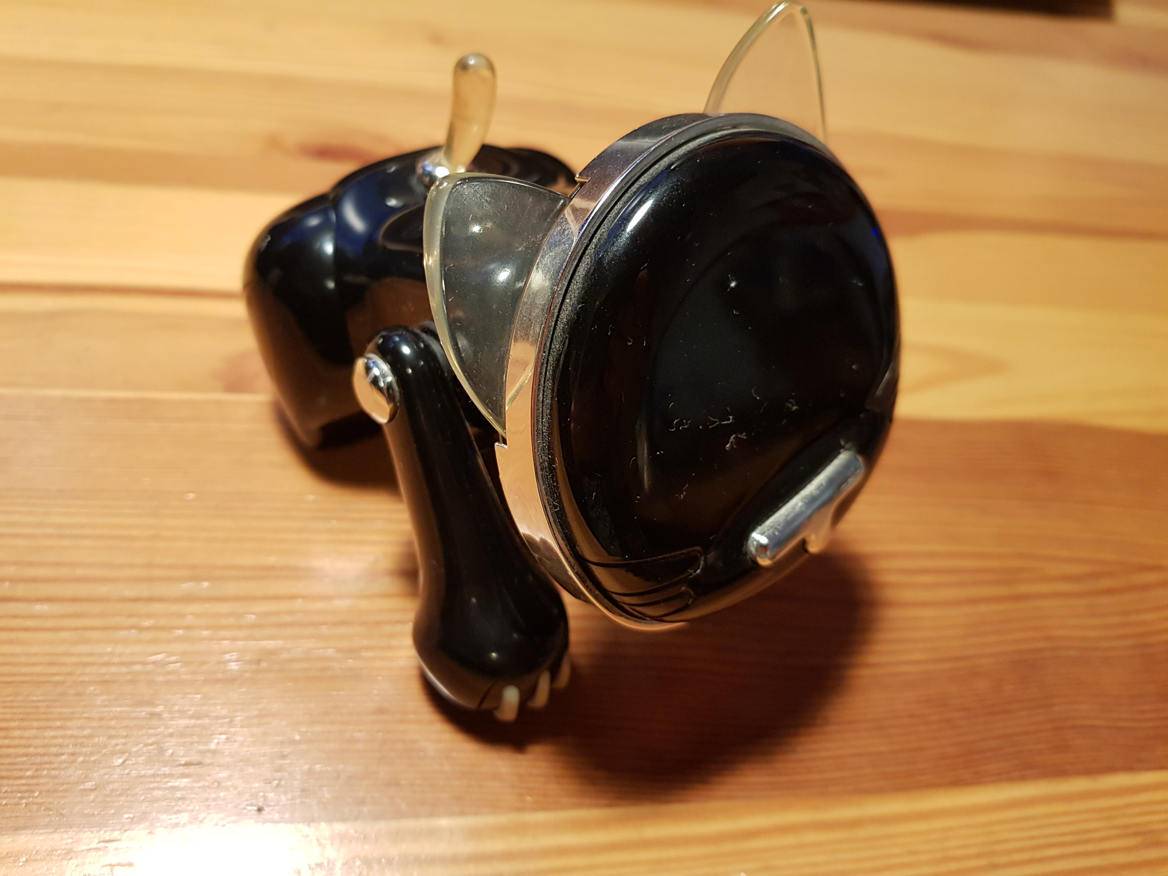 Photo of the black variant of iCat